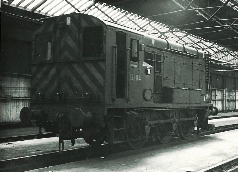 LMS/English Electric 350hp 0-6-0 diesel shunter (later Class "11") No.12104 in BR green livery at Stratford MPD, 07/67. Scanned photograph taken with a Kowa SET camera.